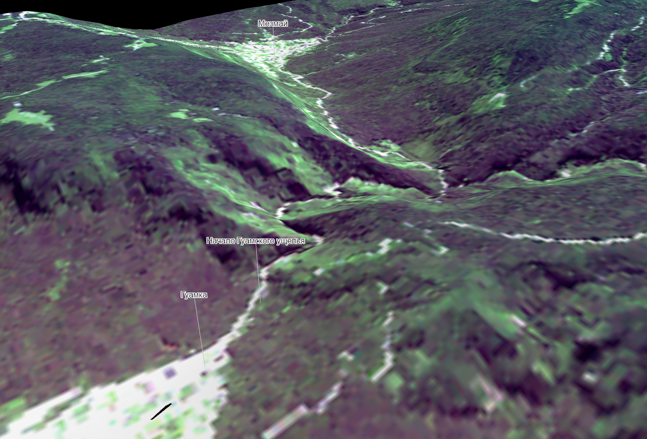 Sentinel-2 perspective view of Guamka in Russia. Created in NextGIS QGIS + qgis2threejs Contains modified Copernicus Sentinel data 2016. Resolution: 1 pixel = 10 meters. Data downloaded from Legal Notice: Contains ASTER GDEM, is a product of METI and NASA.